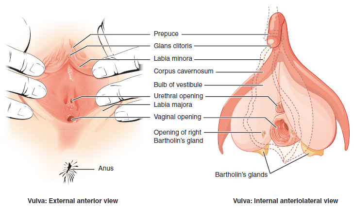 Illustration from Anatomy & Physiology, Connexions Web site. Jun 19, 2013.